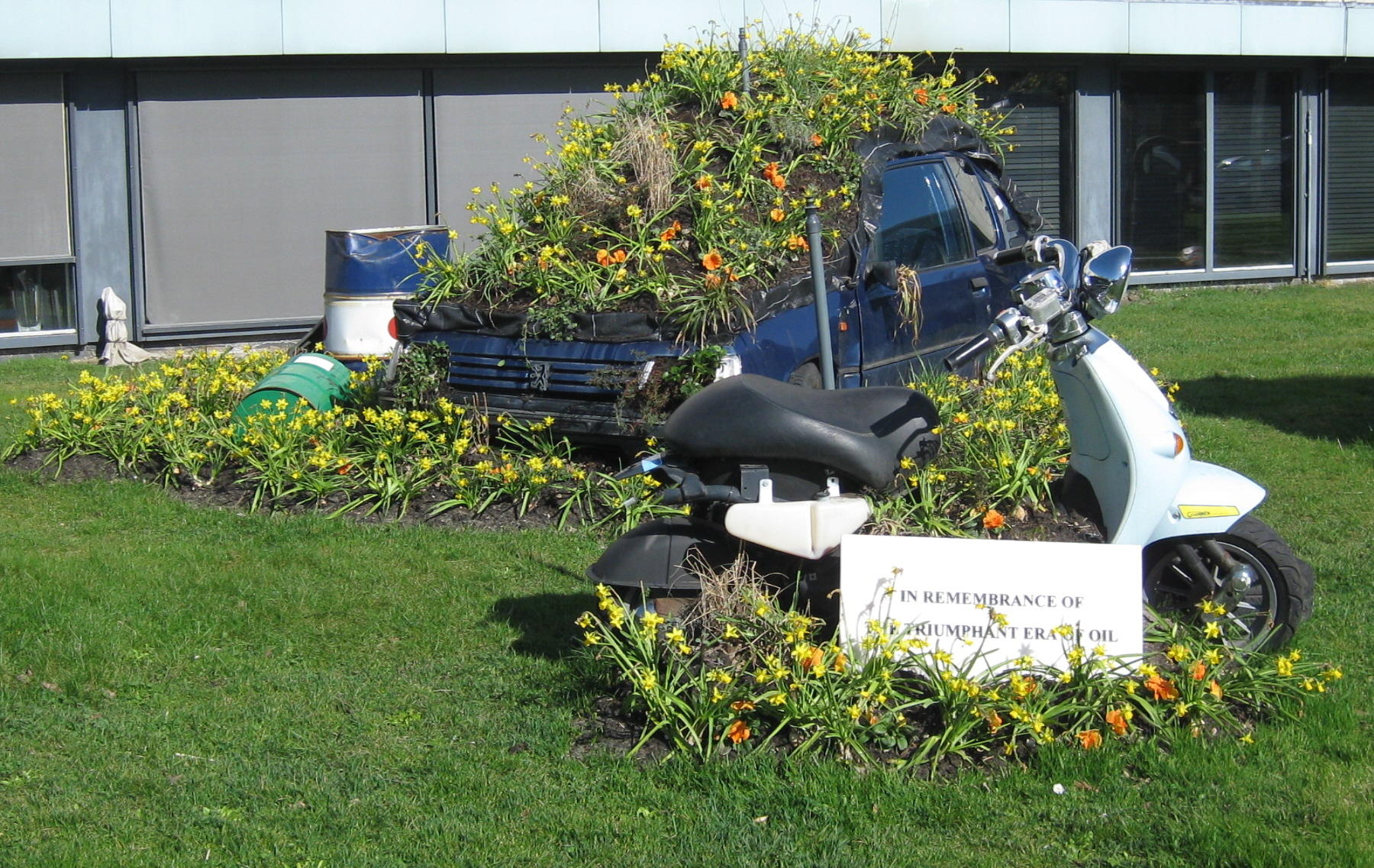 Part of Petrol Engine Memorial Park, an installation work of art by Tea Mäkipää at the Gemeentemuseum Den Haag. Showing a motor-car, scooter and oil drums as the basis for flower beds.